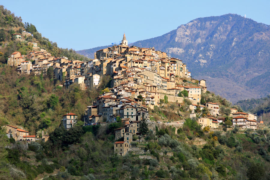 Panorama of Apricale, Imperia, Italy